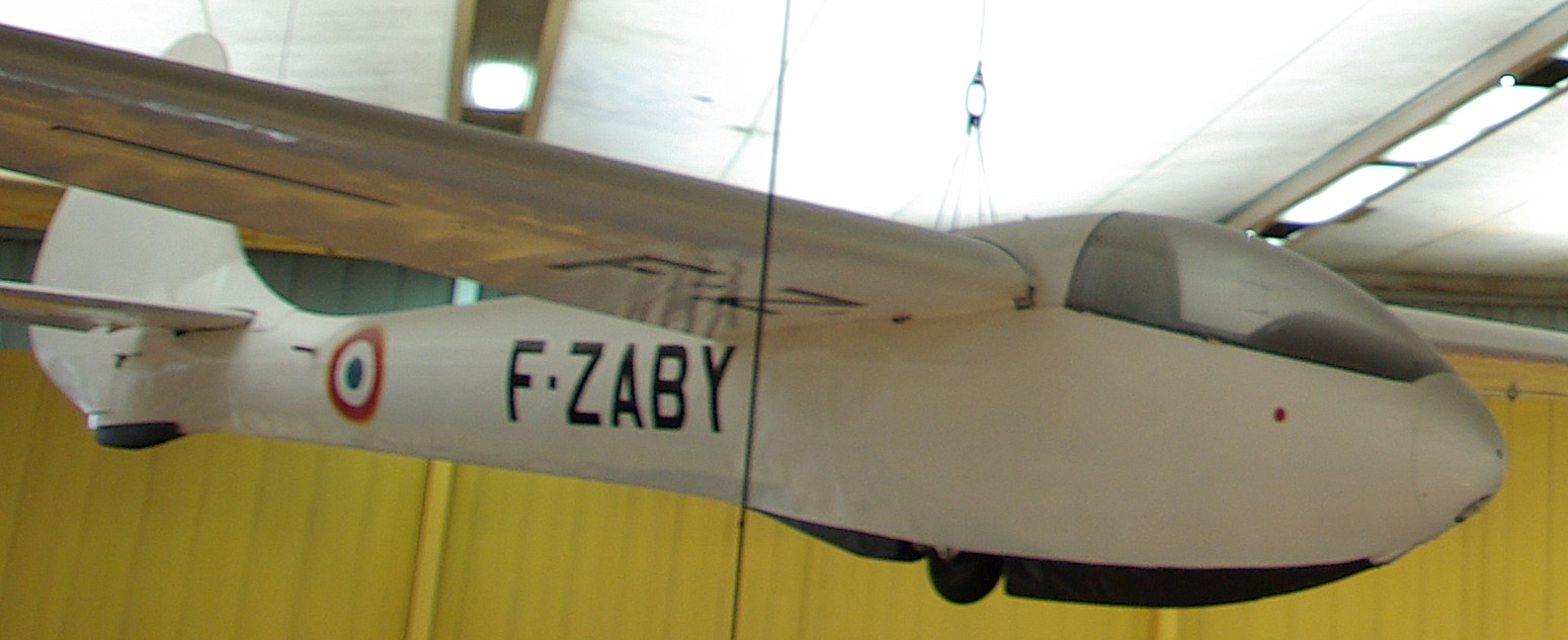 Arsenal Air 100 exhibited at the Air & Space Museum at Le Bourget, France. The registration is false. This image is a crop from another, File:Caudron C.800 (MAE).JPG, made by Duch.seb who agreed to this use.